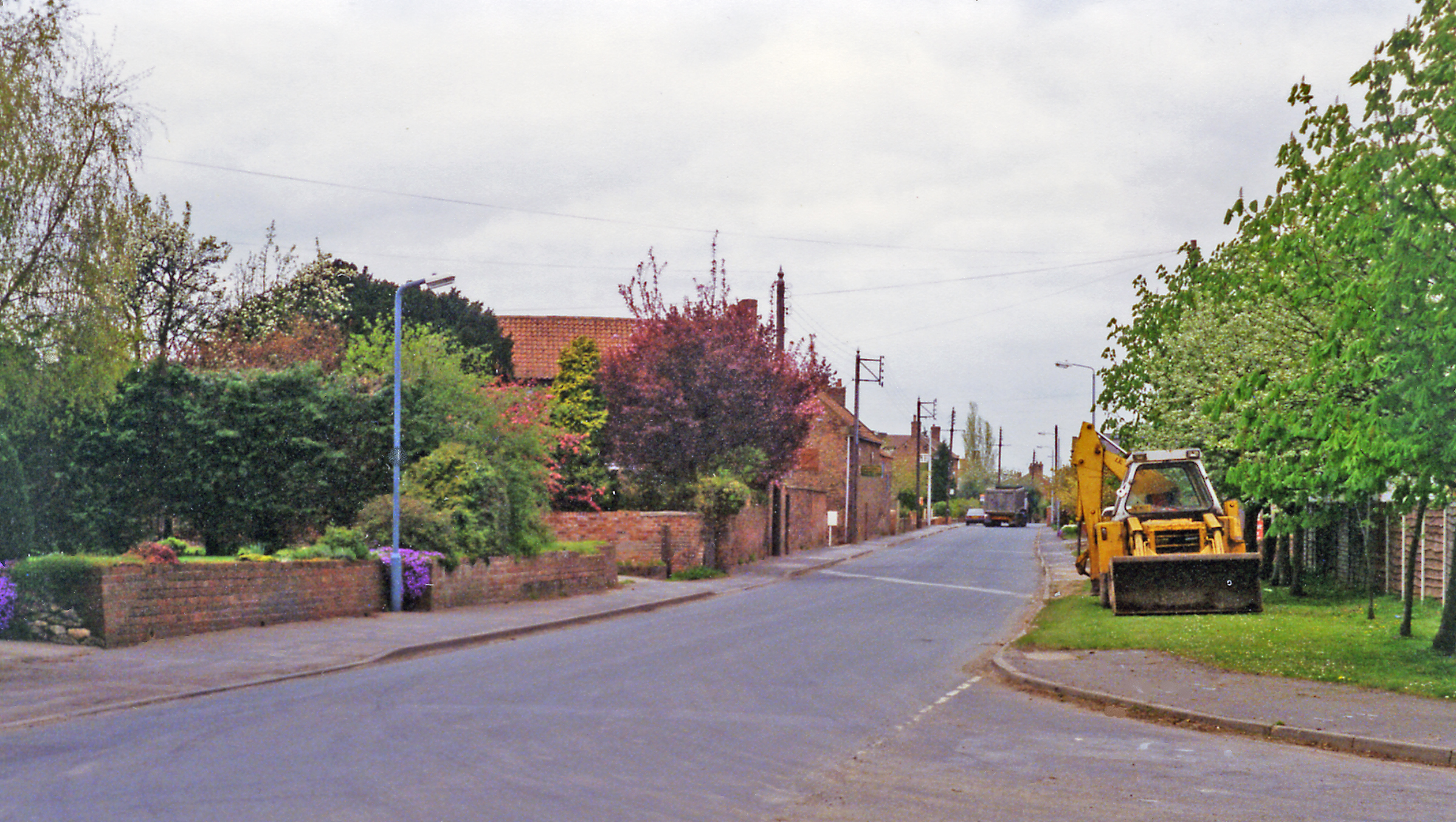 Site of former station at Epworth, 1995. View NW on Station Road, where the Isle of Axholme (L&Y & NER) Light Railway crossed, Goole (to right) - Haxey Junction (to left). The station was on the left and closed to passengers on 17/7/33, but the line remained open for goods until 2/2/56.